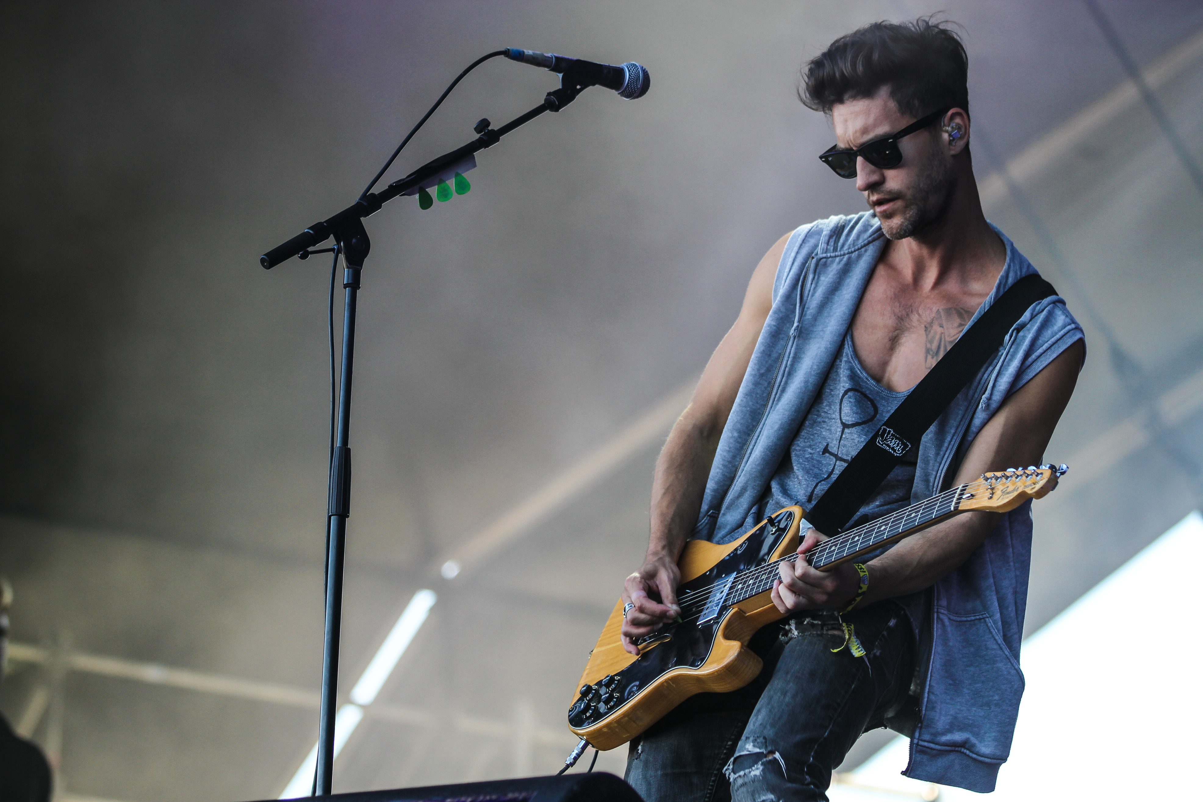 The Sounds performing at Berlin Festival 2013